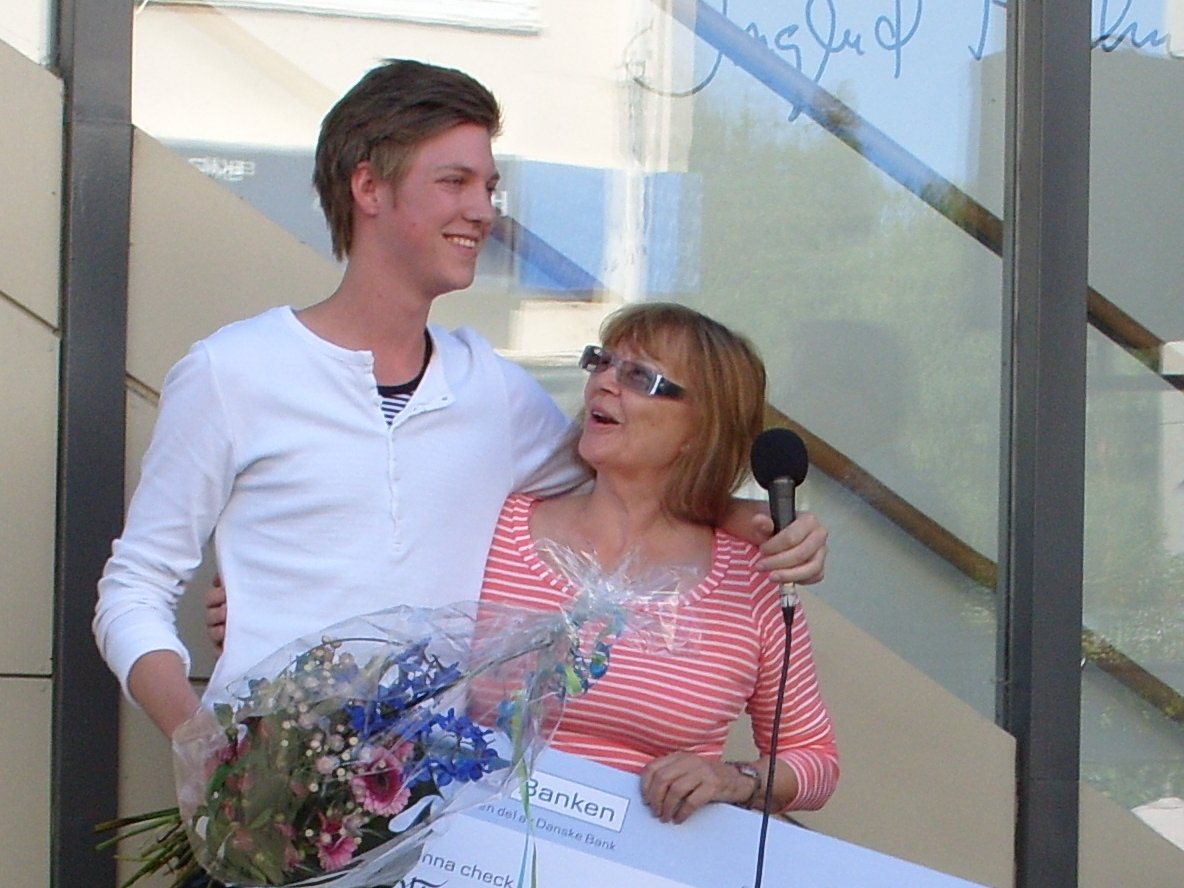 The actor Kristoffer Berglund received the Ingrid Thulin Award [Ingrid Thulin-stipendiet] from the hands of Ingrid Thulin's colleague and friend Harriet Andersson in Ingrid's native Sollefteå.